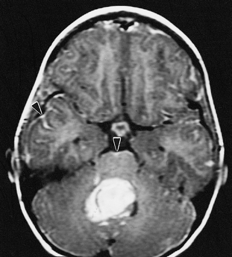 AFIP405851R- MEDULLOBLASTOMA CNR/Radiology As seen in this MRI study of a vermian lesion, medulloblastomas are contrast-enhancing masses. Diffuse enhancement in the cerebral subarachnoid space (arrows) indicates leptomeningeal dissemination.